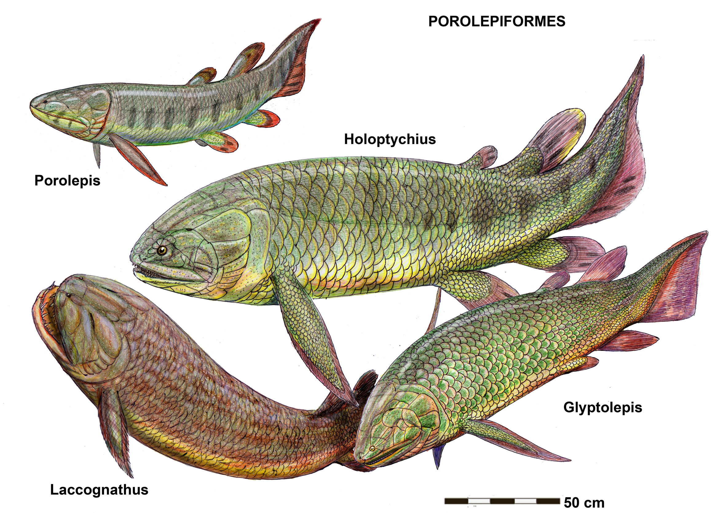 Various Porolepiformes - Porolepis from Early Devonian, Holoptychius, Glyptolepis and Laccognathus from Middle-Late Devonian